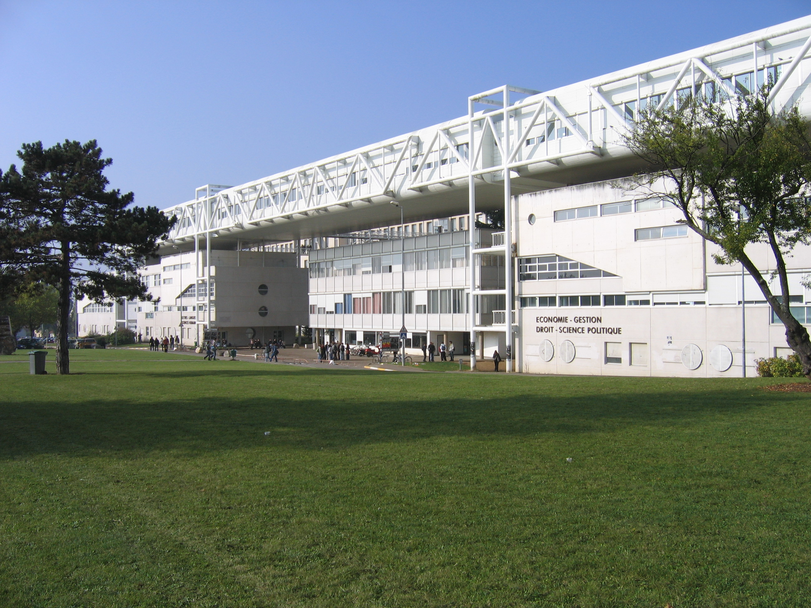 Droit-Lettres building at the Université de Bourgogne (Dijon)